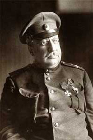 Vladimir May-Mayevsky (1867-1920), Russian General, Commander of White Army In Russia during Russian Civil War (1918-1920)